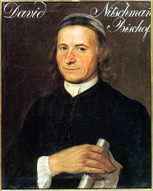 David Nitschmann (1695-1772), bishop of Moravian Church